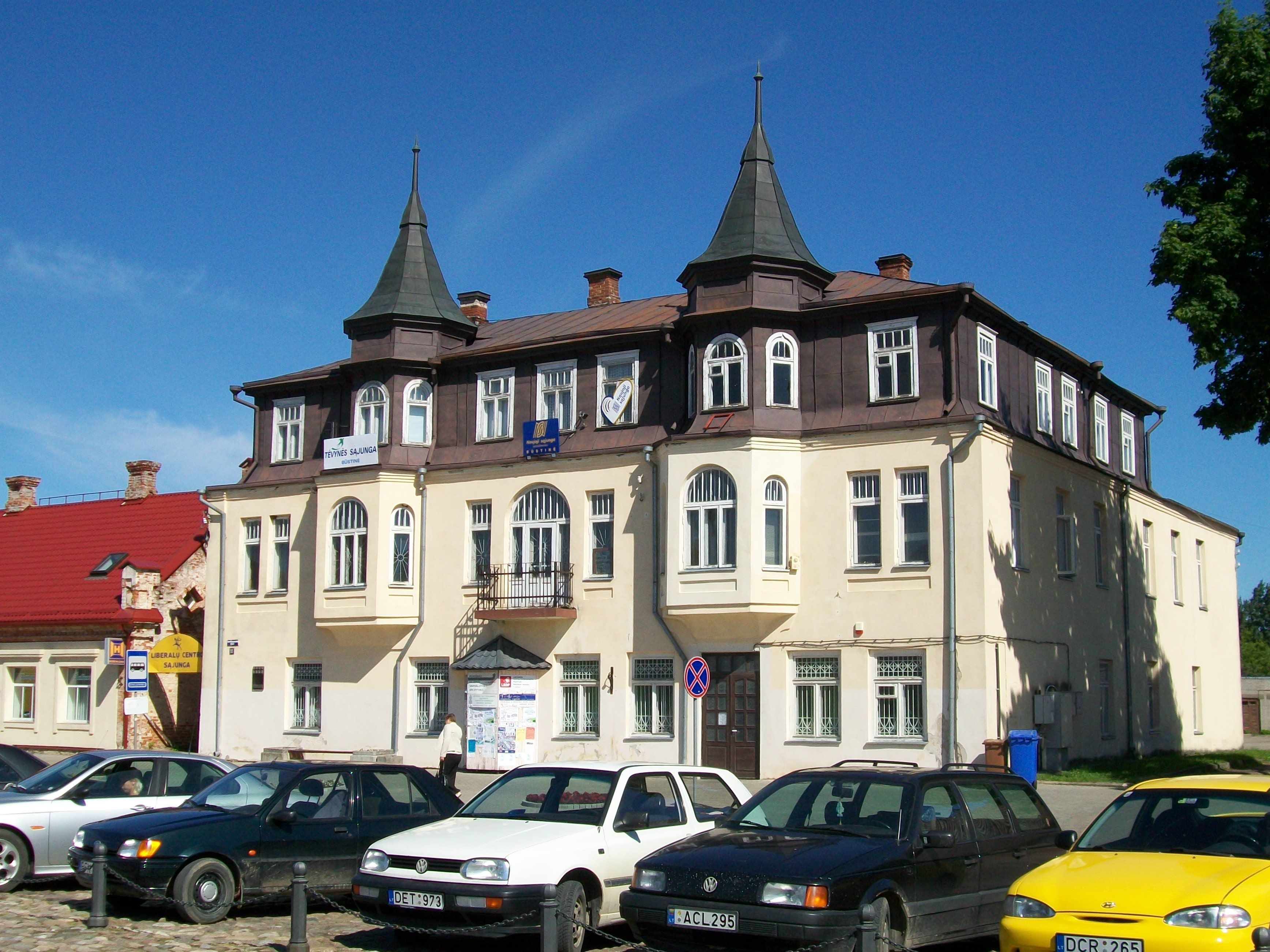 House with little towers in Rokiškis, Lithuania.